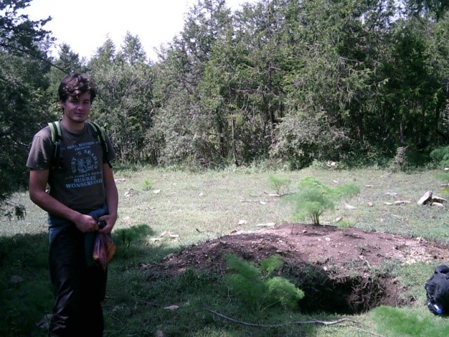 Vertic Calcaric Phaeozem in Desa forest Ethiopia